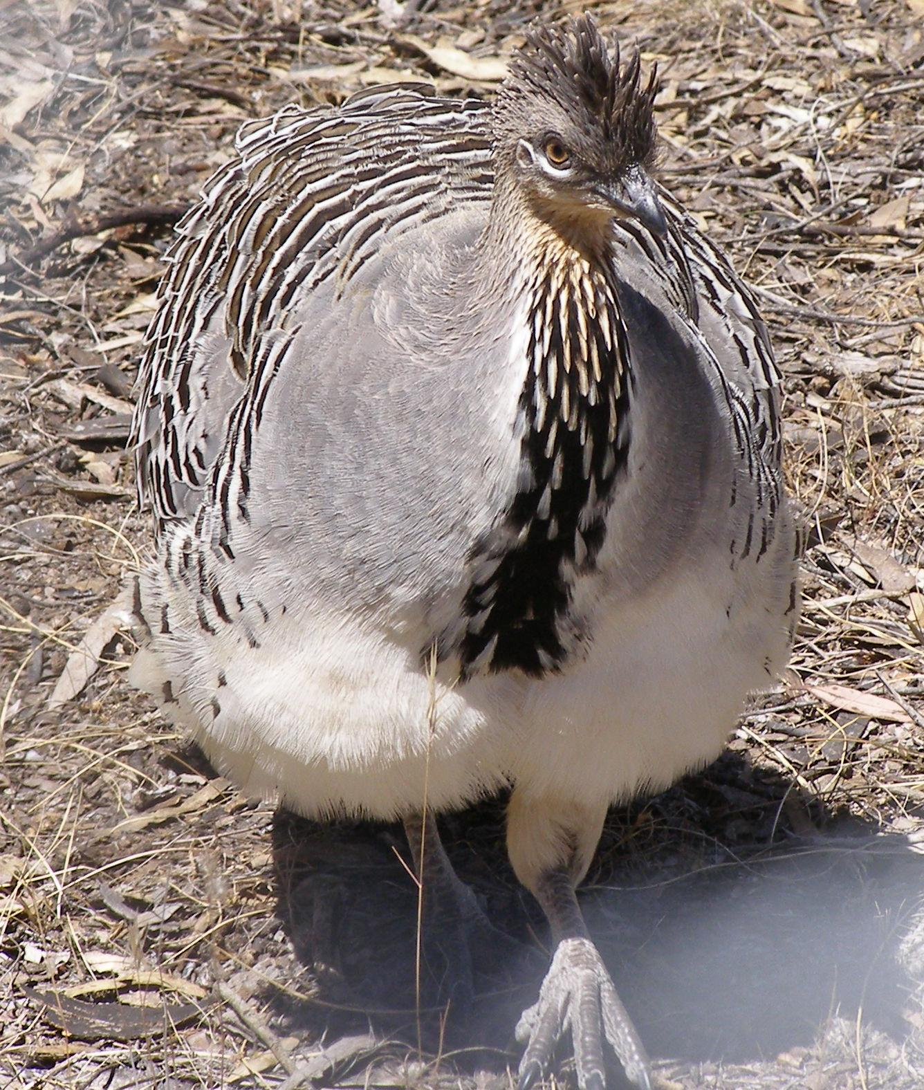 Malleefowl, Yongergnow Malleefowl Centre, Ongerup, Western Australia